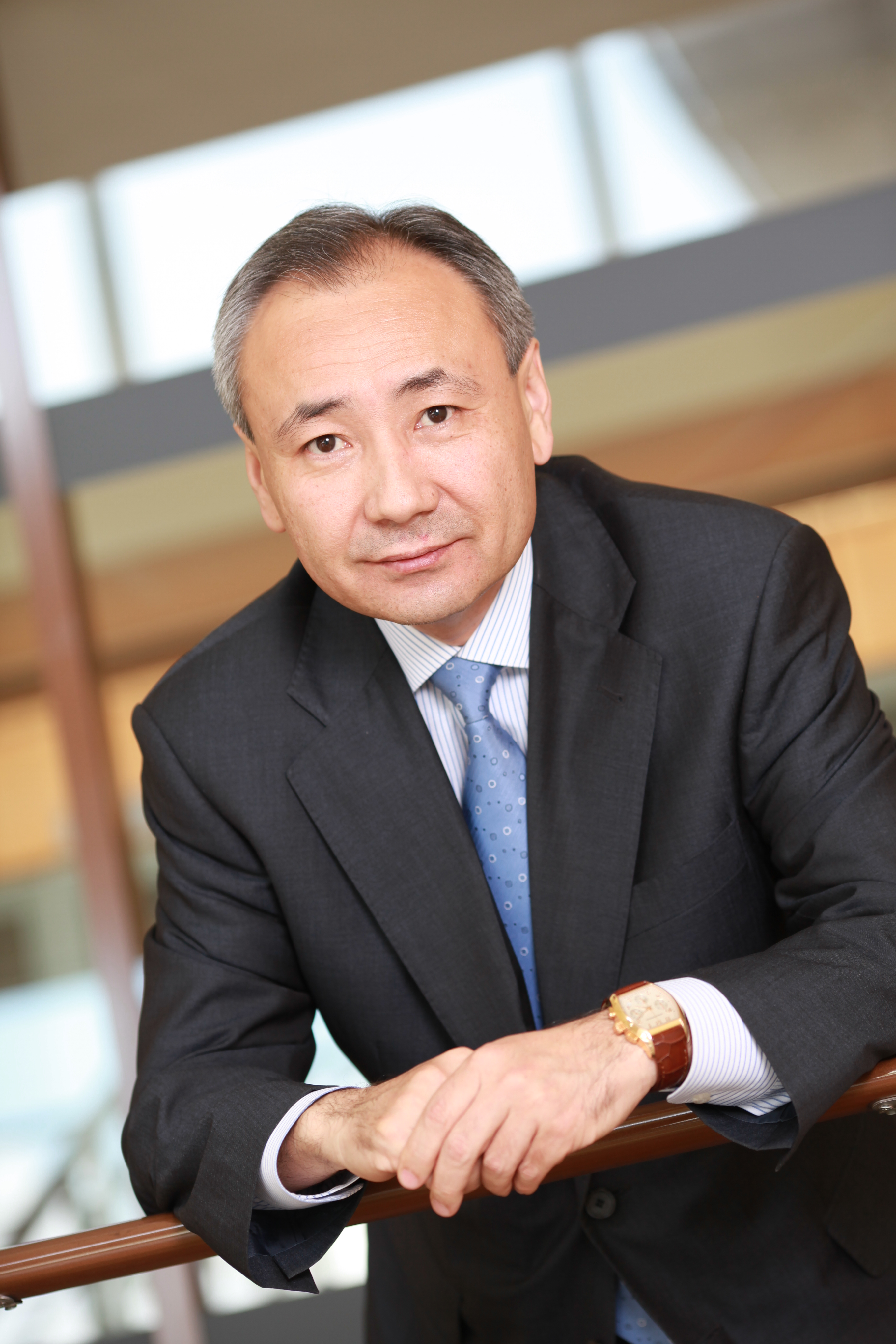 Photo of Kadyrzhan Damitov